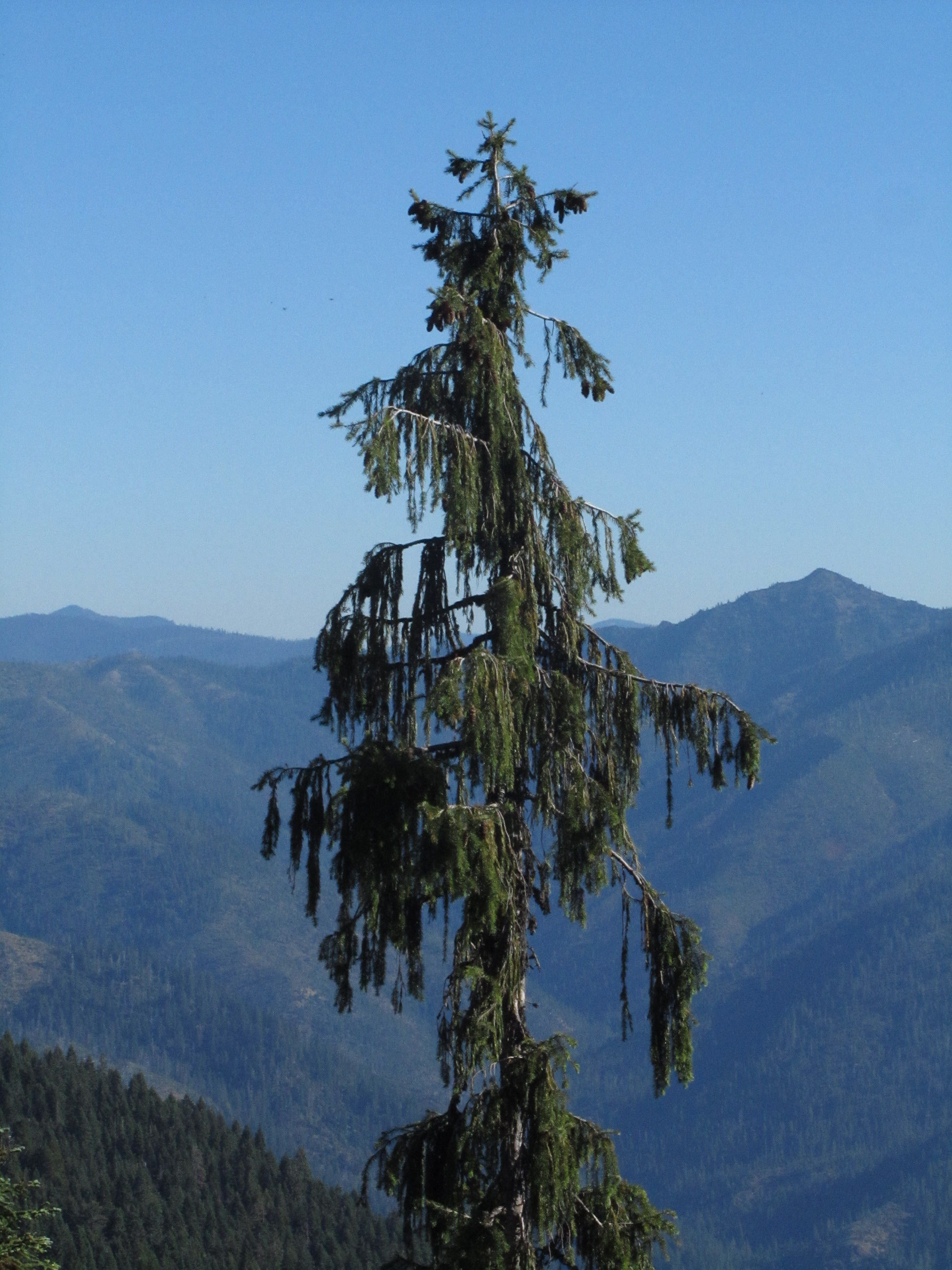 Brewer's Spruce Picea breweriana tree on ridge above Bear Lake, in the Siskiyou Mountains, Northwestern California.